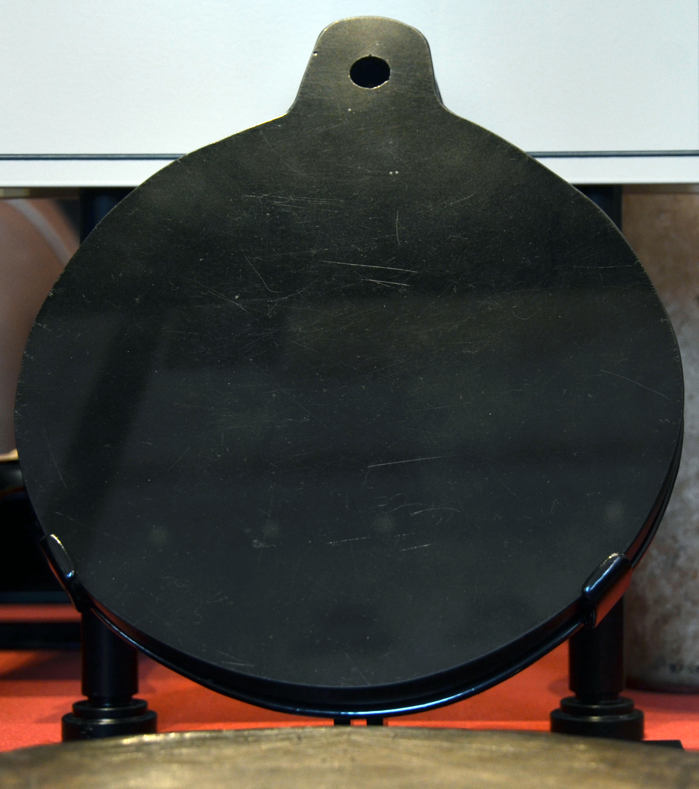 Aztec mirror that passed into the possession of Elisabethan court alchemist and astrologer John Dee. Now in the collection of the British Museum.